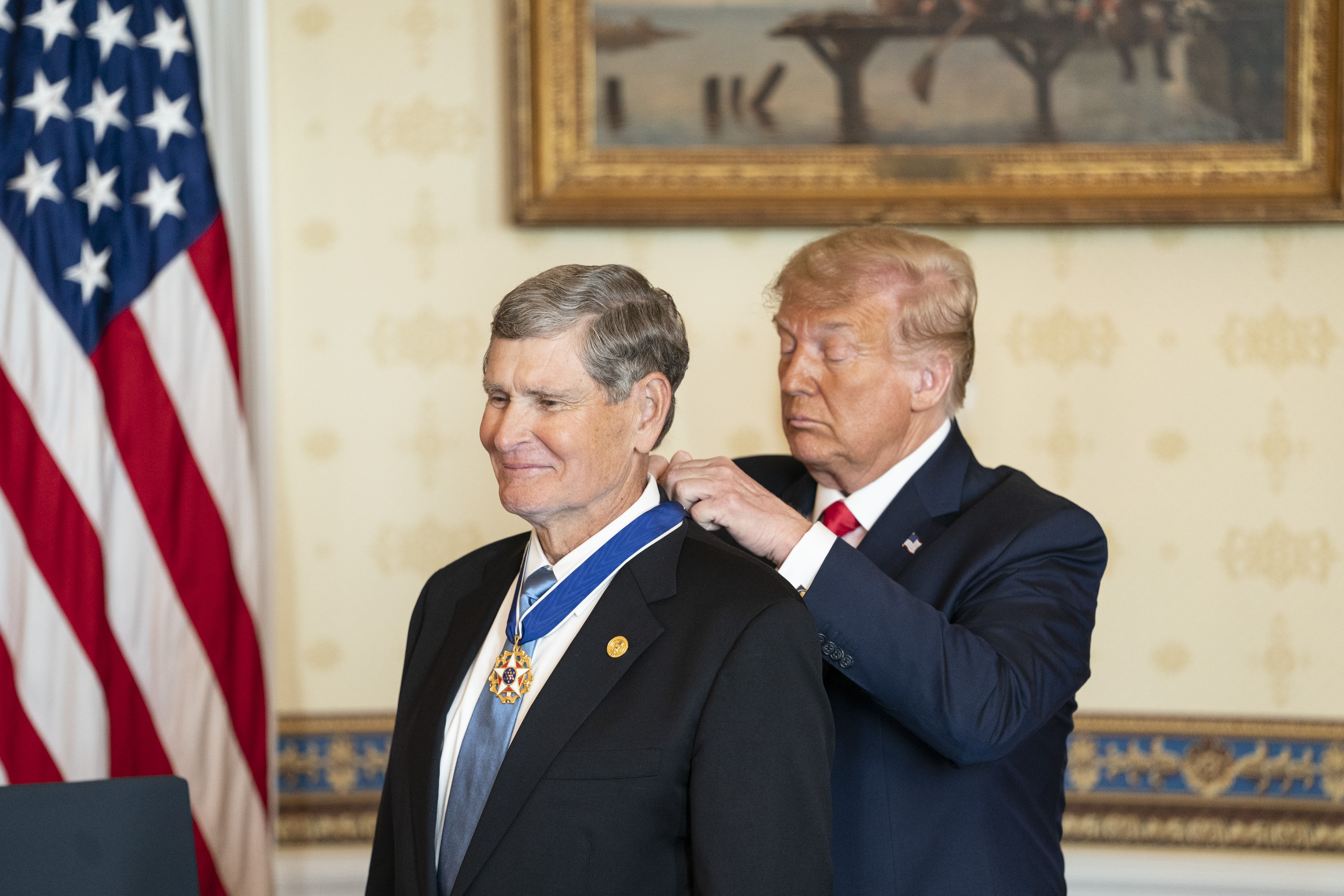 President Donald J. Trump presents legendary American runner and former U.S. Representative Jim Ryun with the Presidential Medal of Freedom Friday, July 24, 2020, in the Blue Room of the White House. (Official White House Photo by Joyce N. Boghosian)